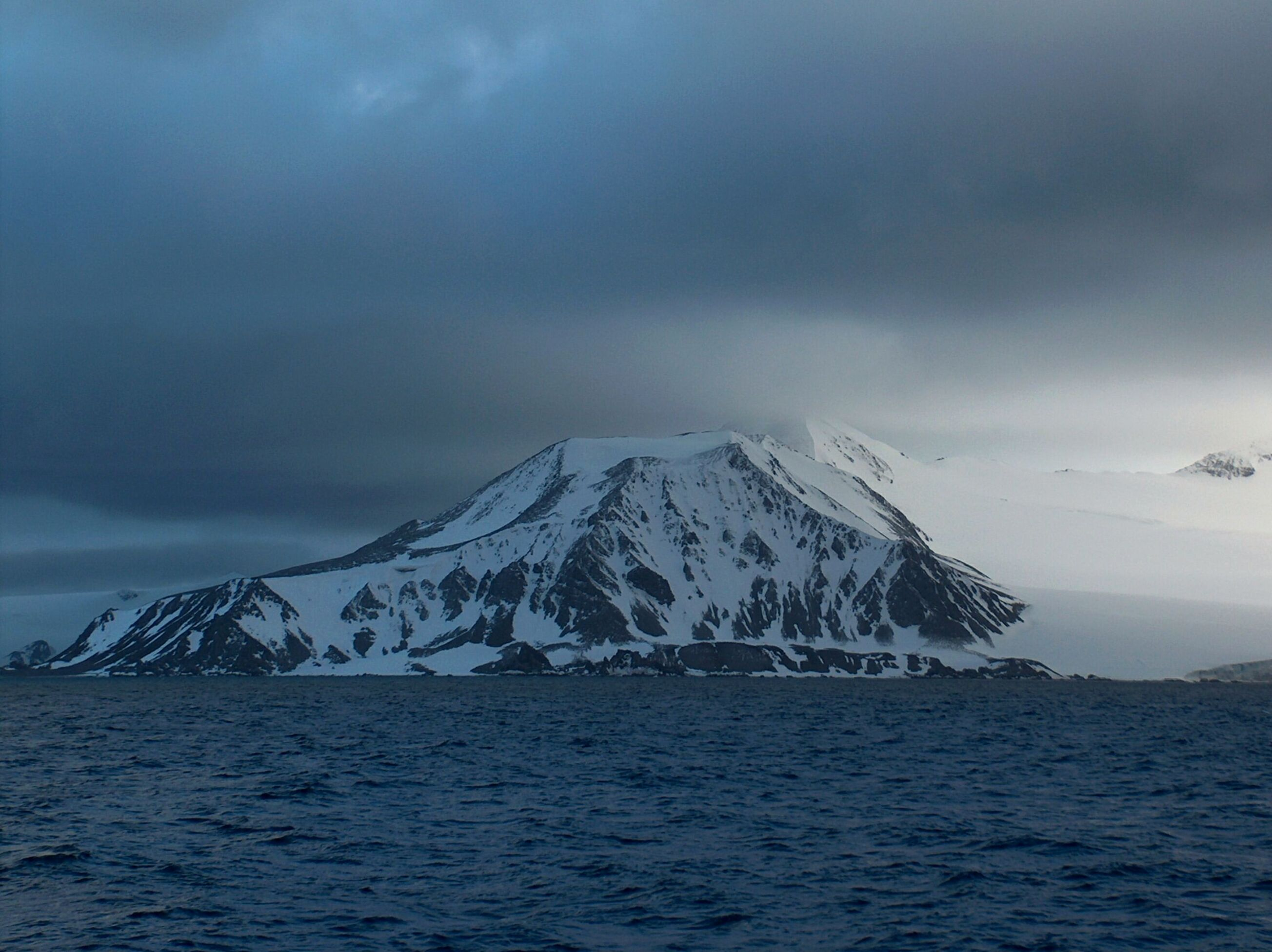 Botev Peak on Livingstone Island, Antarctica